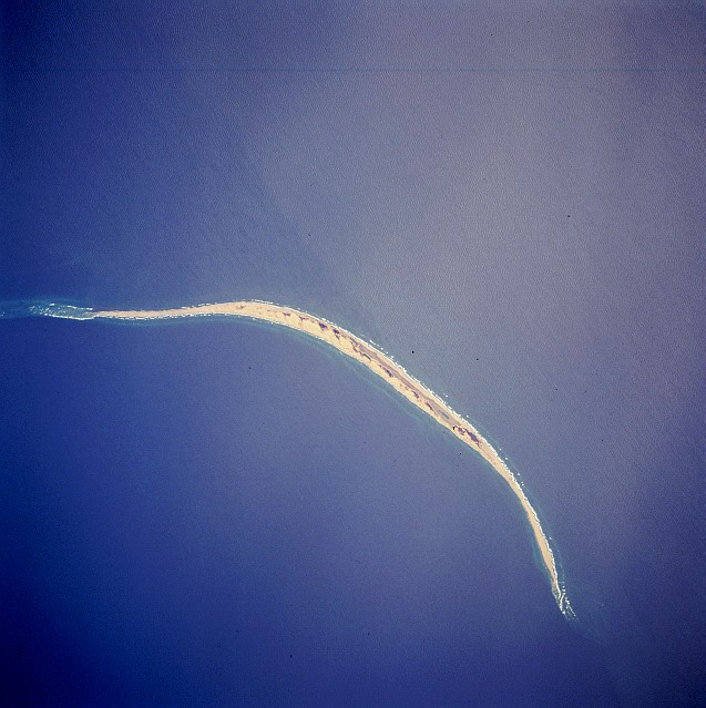 Satellite image of Sable Island (Canada). STS059-216-079 Sable Island, Nova Scotia, Canada April 1994 Sable Island is a low sandy island approximately 25 miles (40 km) long and 1 mile (1.5 km) wide in the Atlantic Ocean. Located 115 miles (180 km) southeast of Cape Canso, Nova Scotia, the island is the exposed part of a sand shoal that extends northeast/southwest for more than 100 miles (160 km). Sable Island, known as the “graveyard of the Atlantic Ocean,” has been a major hazard to navigation. The island is also noted as a breeding ground for seals, which are protected by the Canadian government. The island helps to mark the western edge of the northeasterly flowing warm waters of the Gulf Stream.